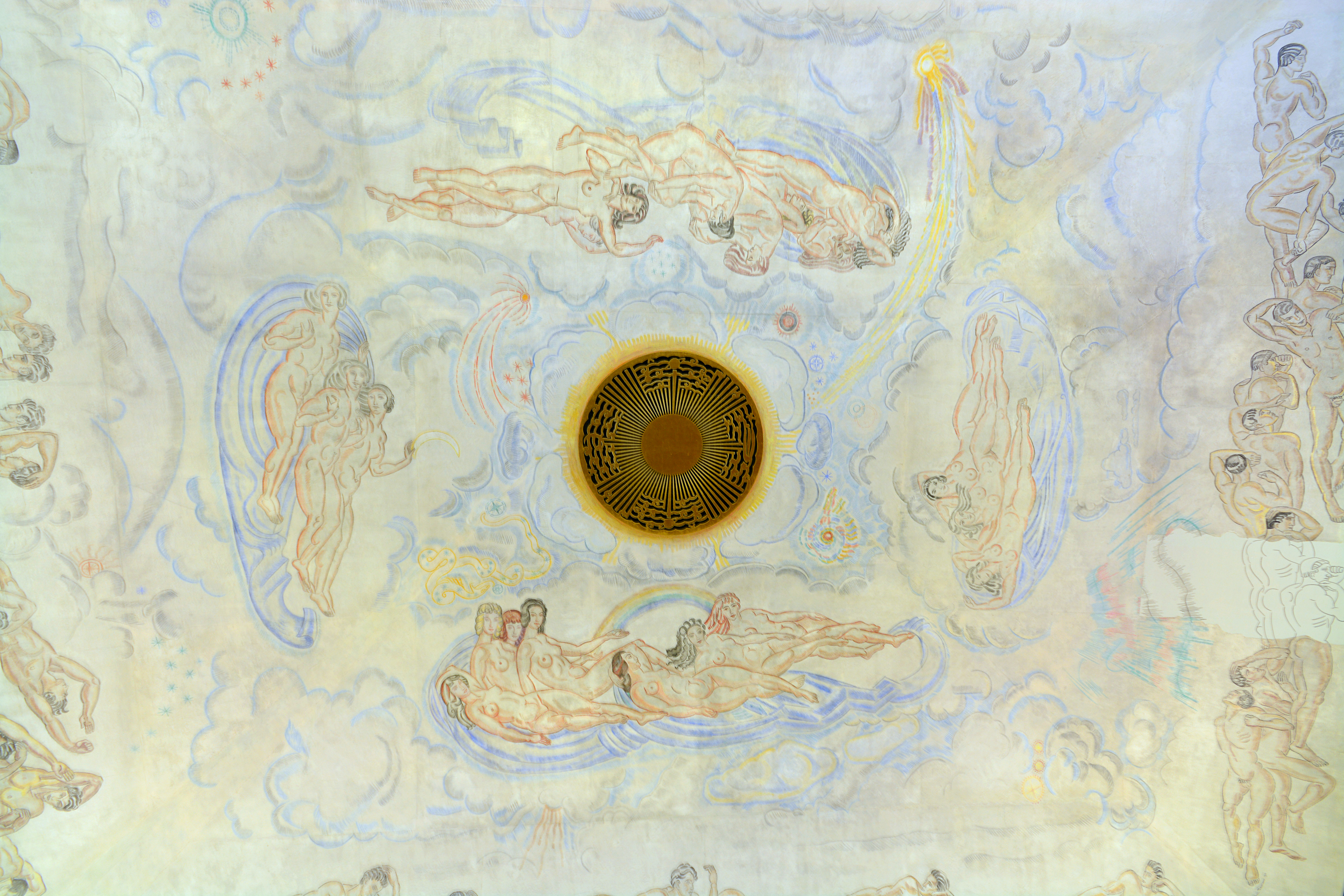 The ceiling in the lecture hall E1 (Törneman hall) at Royal Institute of Technology, Stockholm, Sweden.